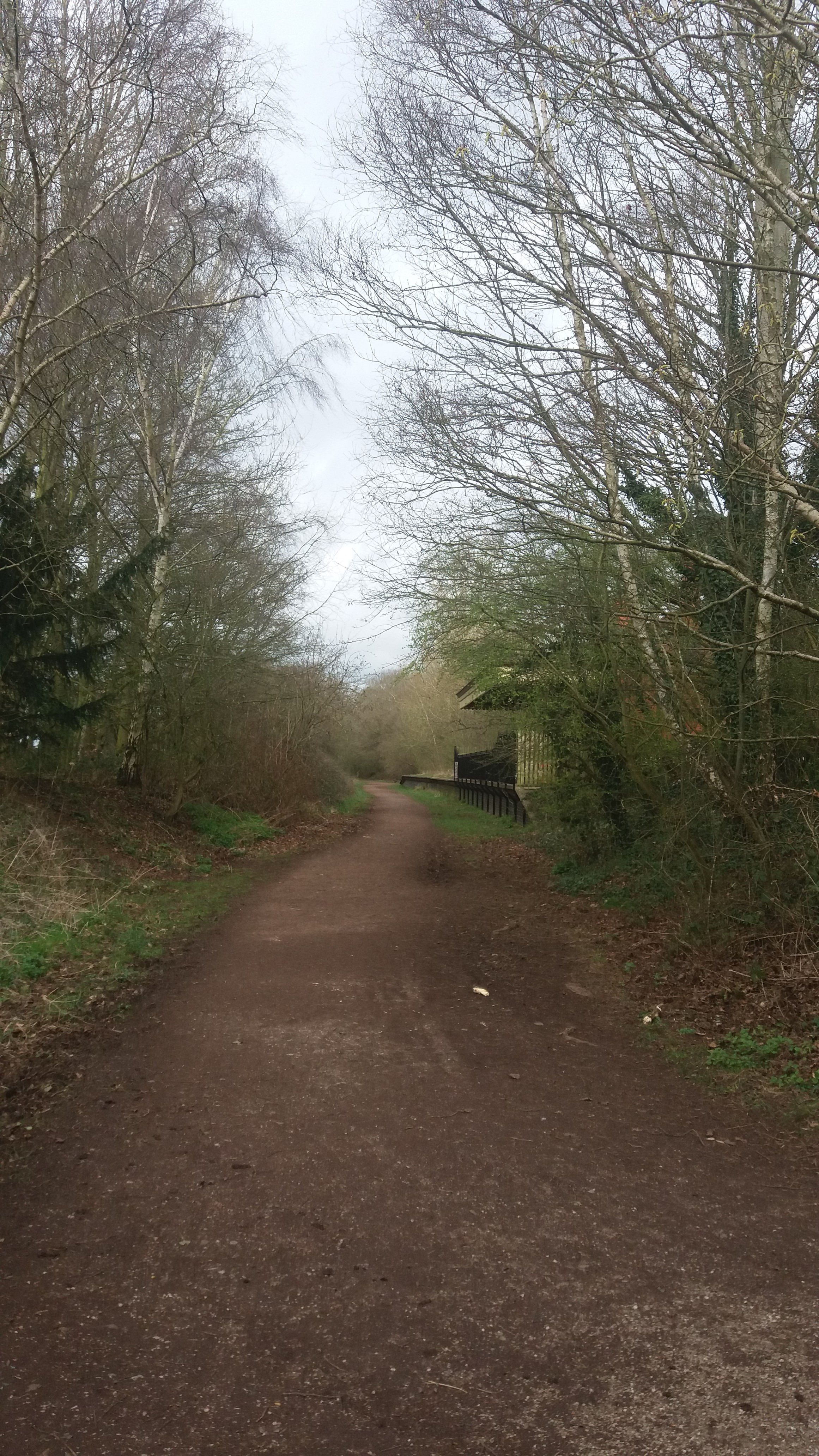 My own.